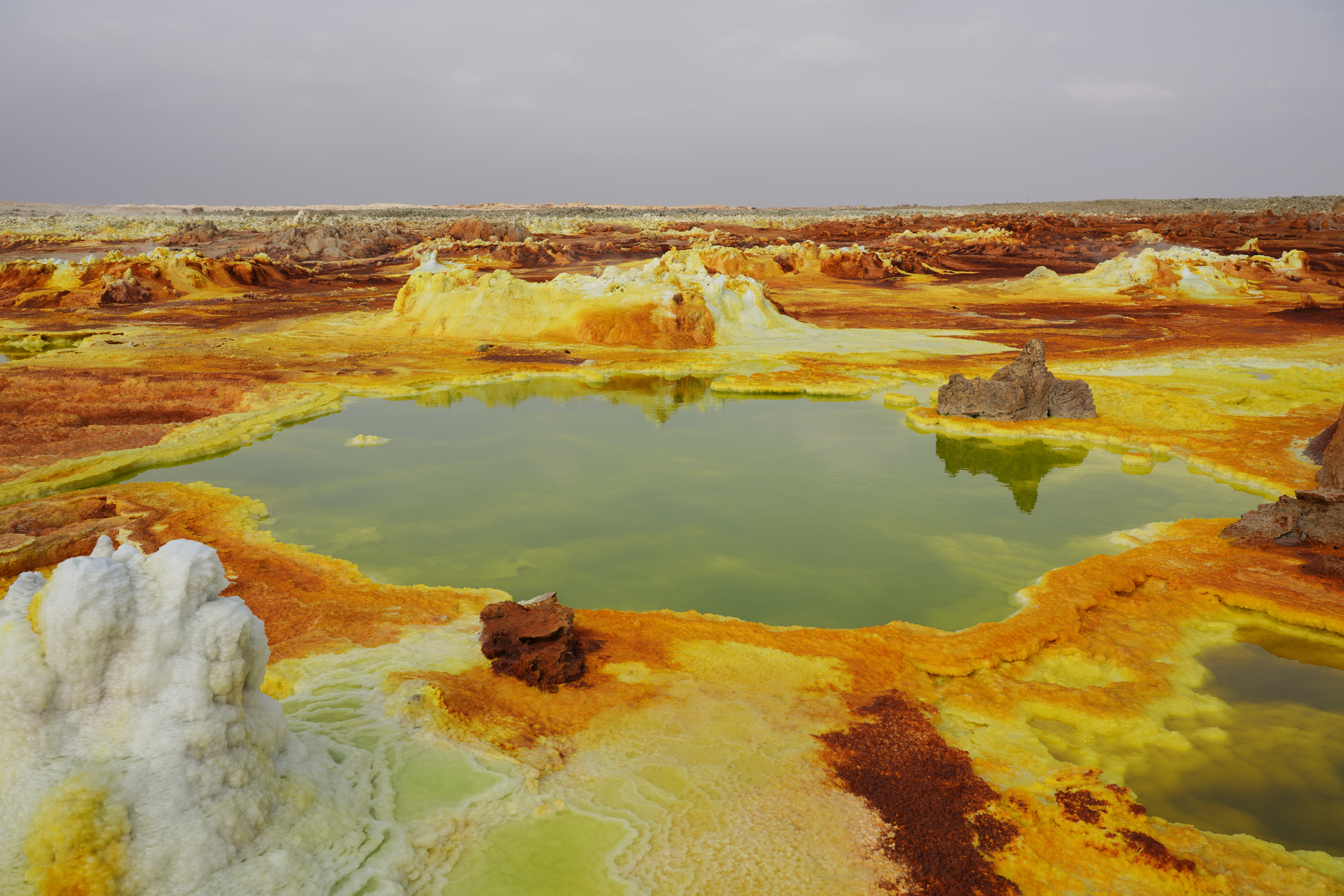 Landscape at Dallol volcano, Afar Region, Ethiopia